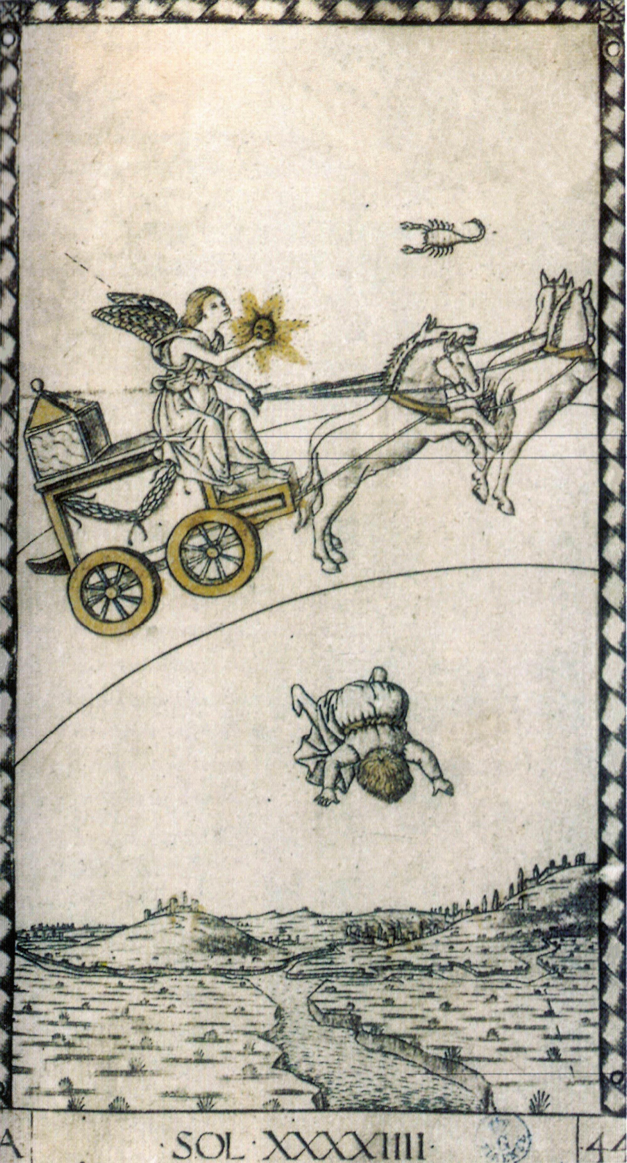 Card no. 44 from the E-series of the so-called Mantegna Tarocchi; Florence, Uffizi gallery, Gabinetto Disegni e Stampe